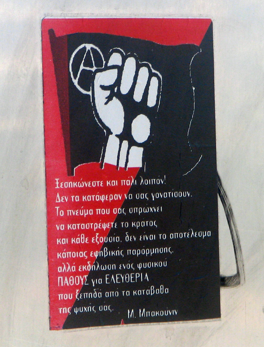 Anarchist poster on a wall in Thessaloniki, Greece, quoting Mikhail Bakunin in a saying about how "the spirit and urge of destroying the state and any kind of authority is not just a result of a teenage impulse, but the manifestation of a natural passion for freedom that bounces from the depths of your souls."